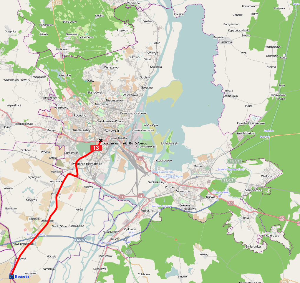 Map of route of Polish national road 13 in Szczecin.